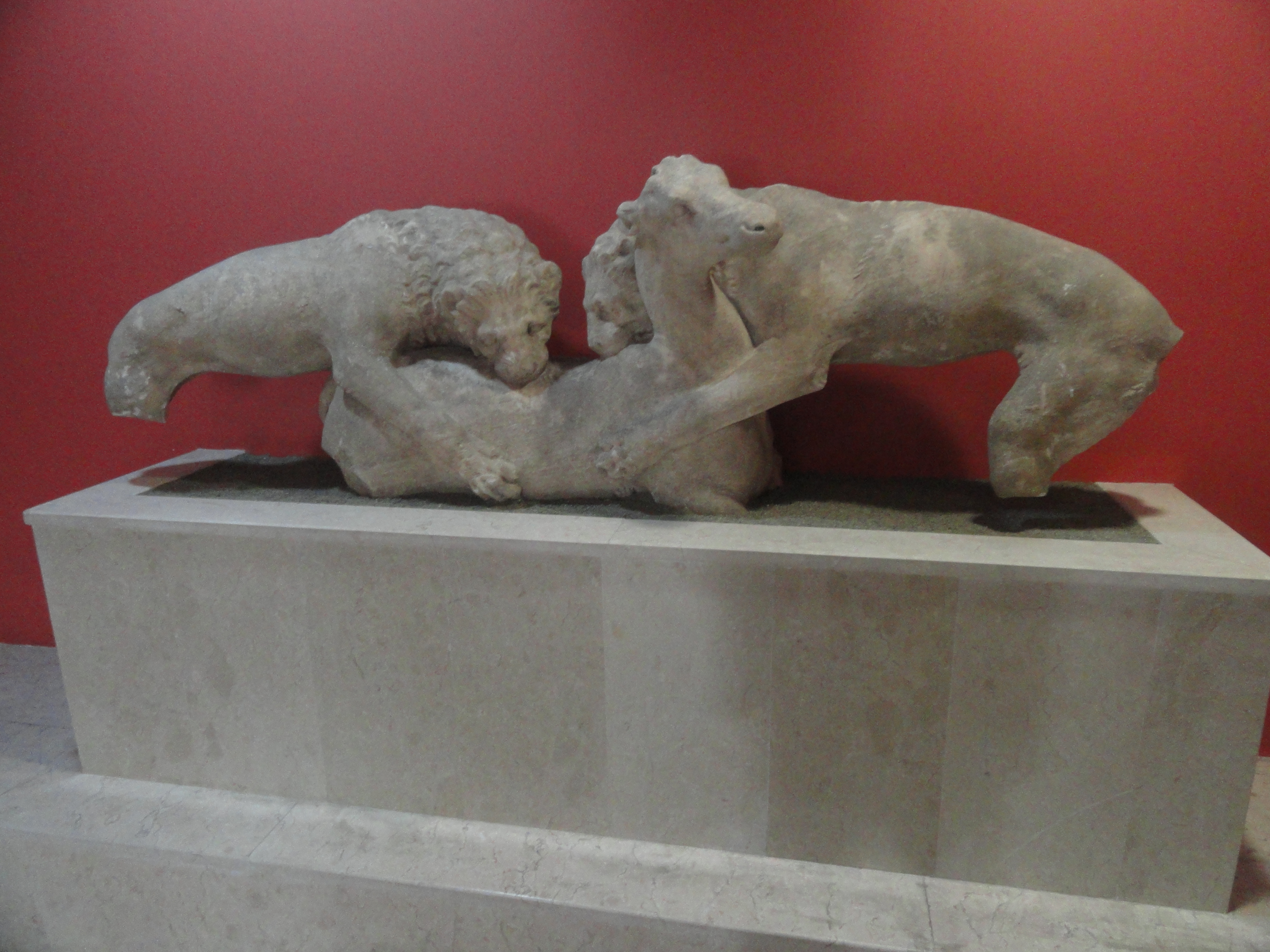 Marble statue of lions savaging a deer, B.C. 4th century Sinop Archeology Museum